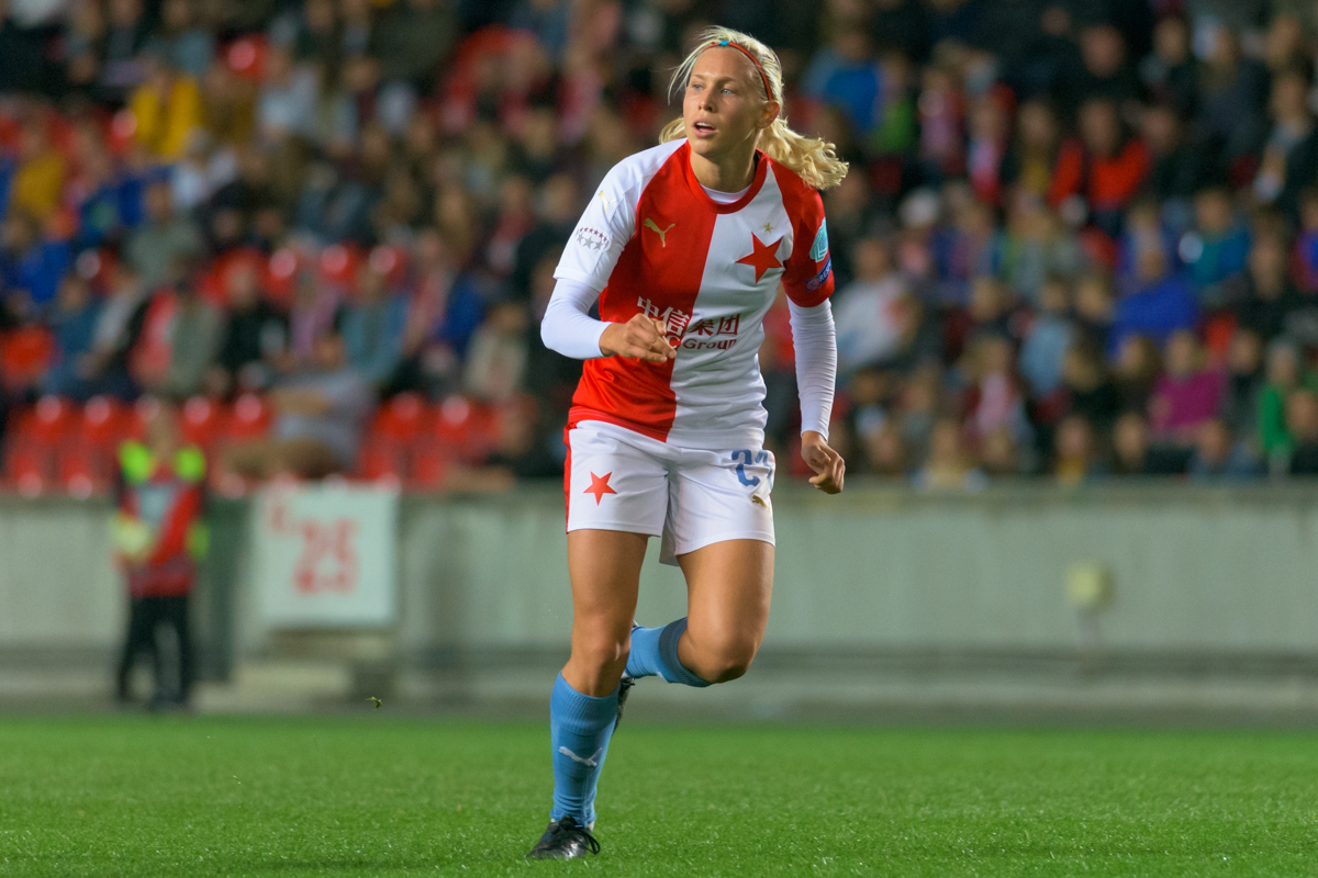 Kateřina Svitková during the match vs Arsenal WFC, October 2019